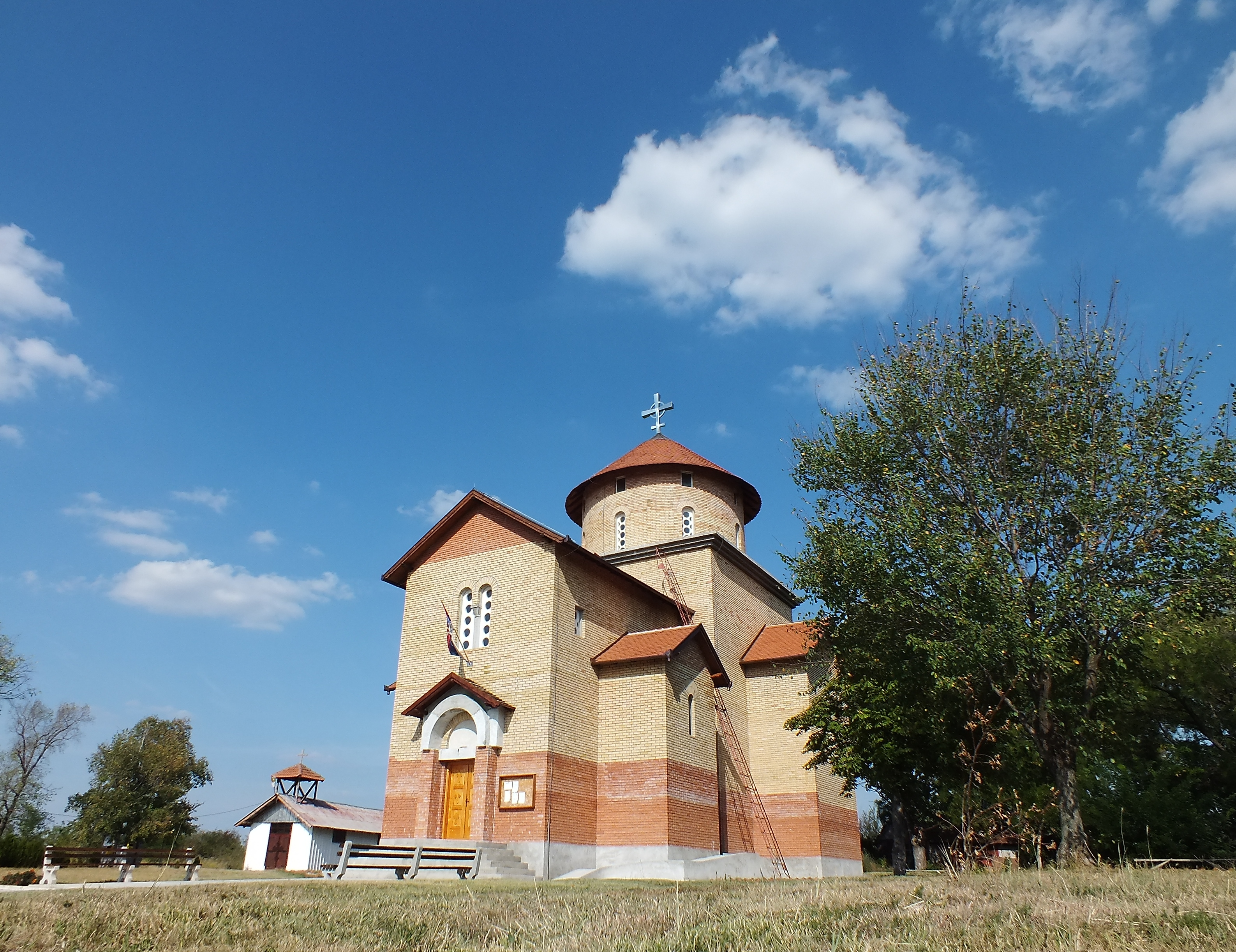 Serbian Orthodox Church in Lovcenac